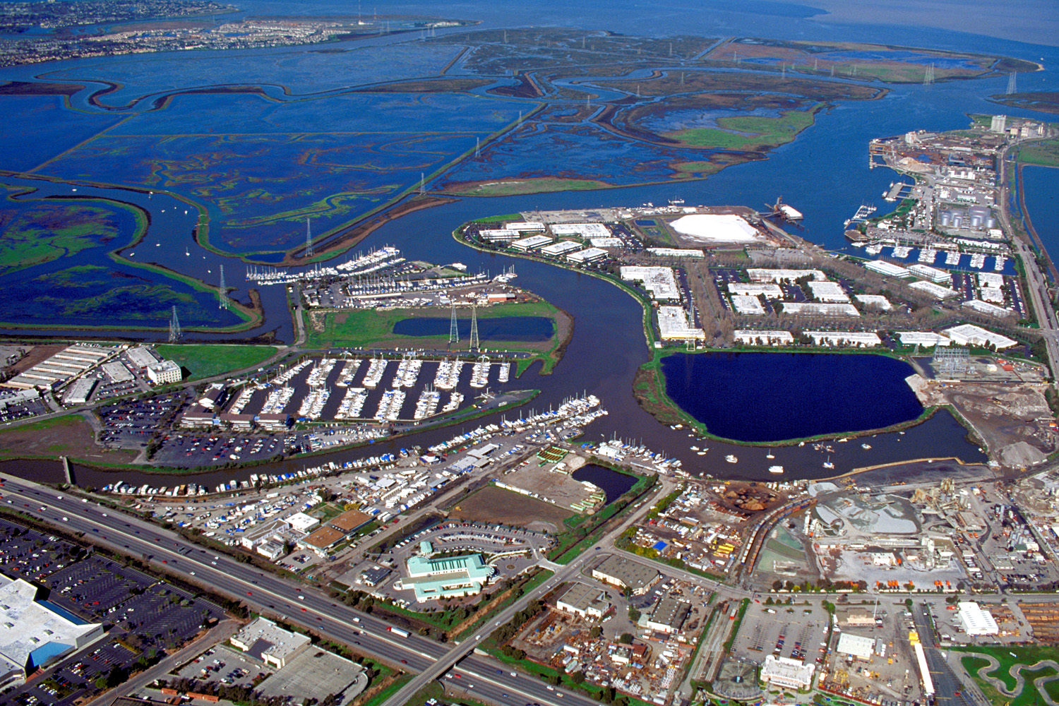 Aerial view of the port of Redwood City in San Mateo County, California, USA. The major deepwater port is visible at the far right in the photograph. Redwood Creek angles across the picture from lower left to upper right, forming the port and emptying into lower San Francisco Bay at the top. Corkscrew Slough winds across the wetlands of Bair Island at the top of the picture. View is to the northeast.